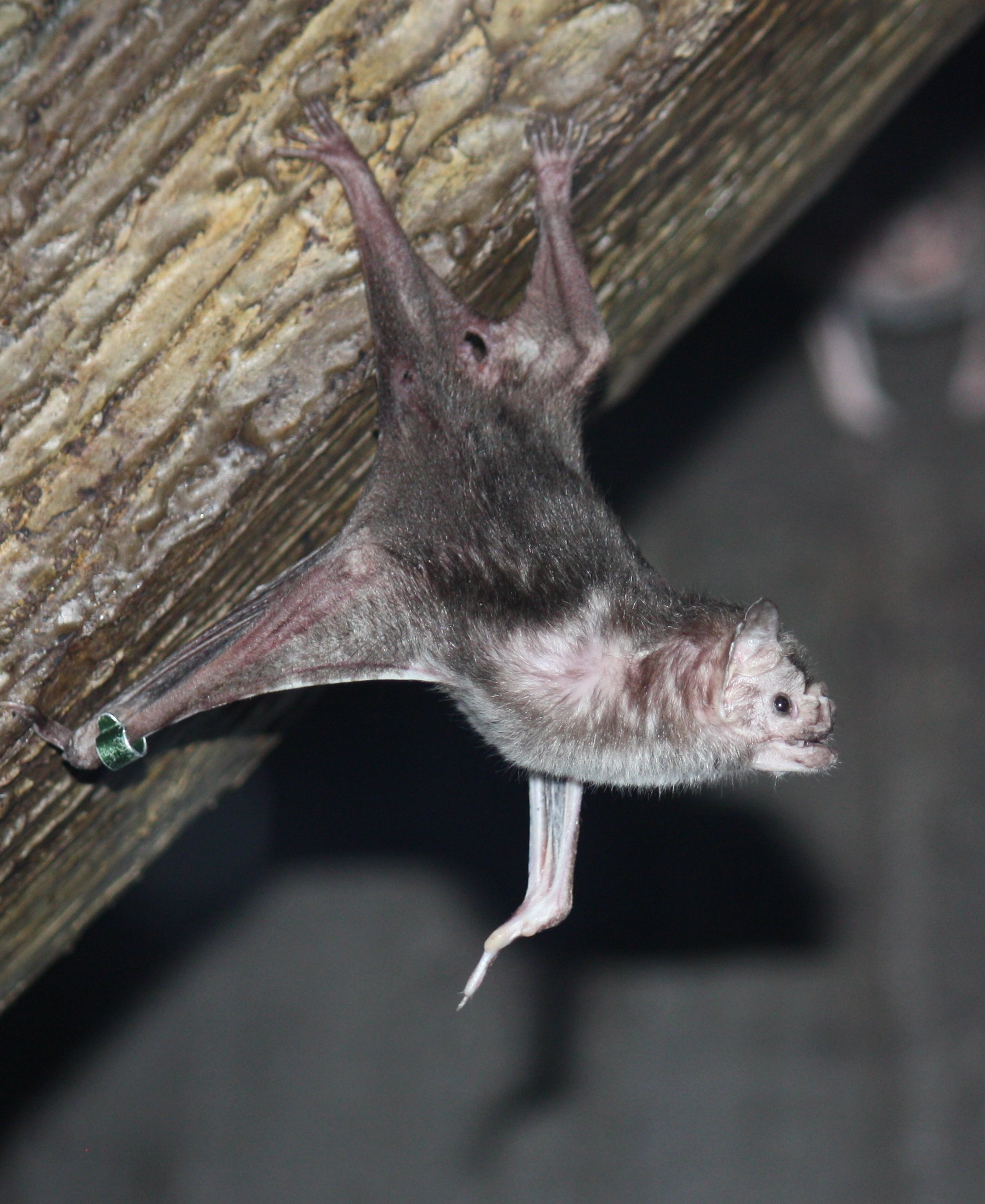 Vampire Bat Desmodus rotundus at the Louisville Zoo